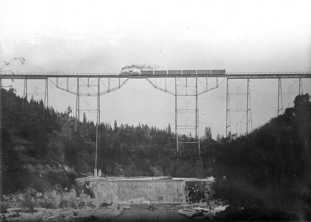 Engine No. 2 crossing the new steel bridge of Nevada County Narrow Gauge Railroad with a string of cars in December 1908. Searls Library